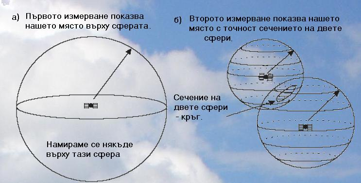 GPS trilateration p1